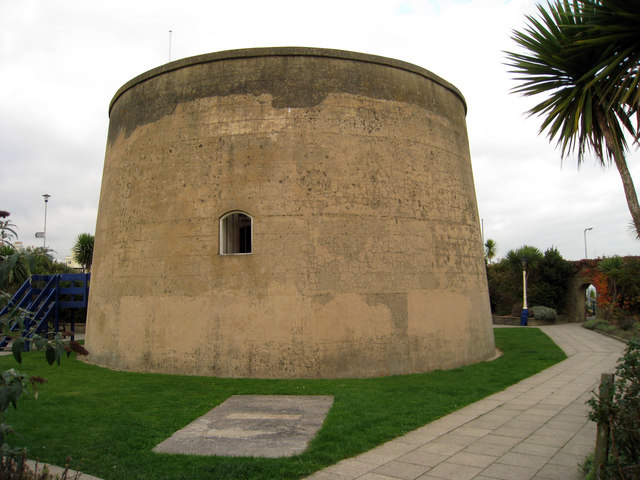 The Wish Tower, Eastbourne